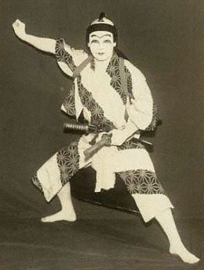 Shōroku Onoe II (1913–89) as Sagisaka Bannai (Kanatehon Chūshingura)